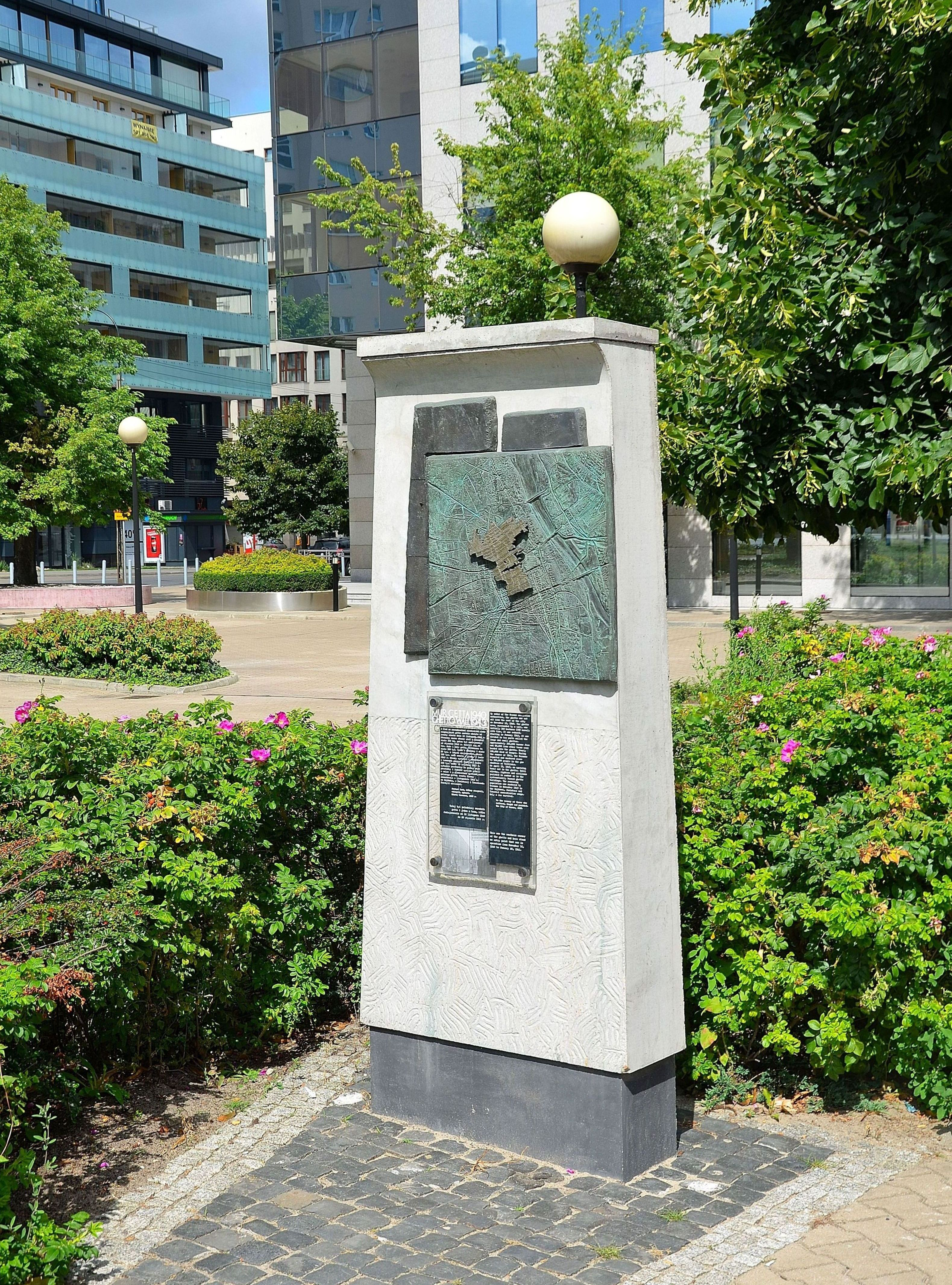 A marker of the Warsaw Ghetto border in Twarda Street in Warsaw